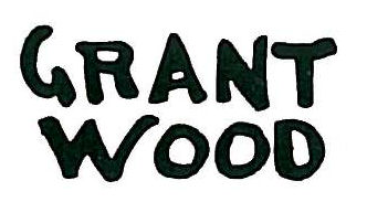 autograph of the painter Grant Wood